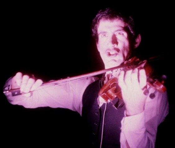 Ray Shulman performing at Woolsey Hall in New Haven, CT.